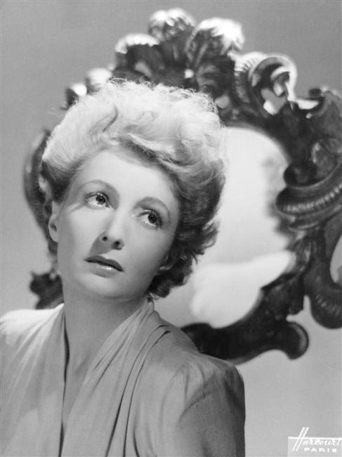 Studio photo